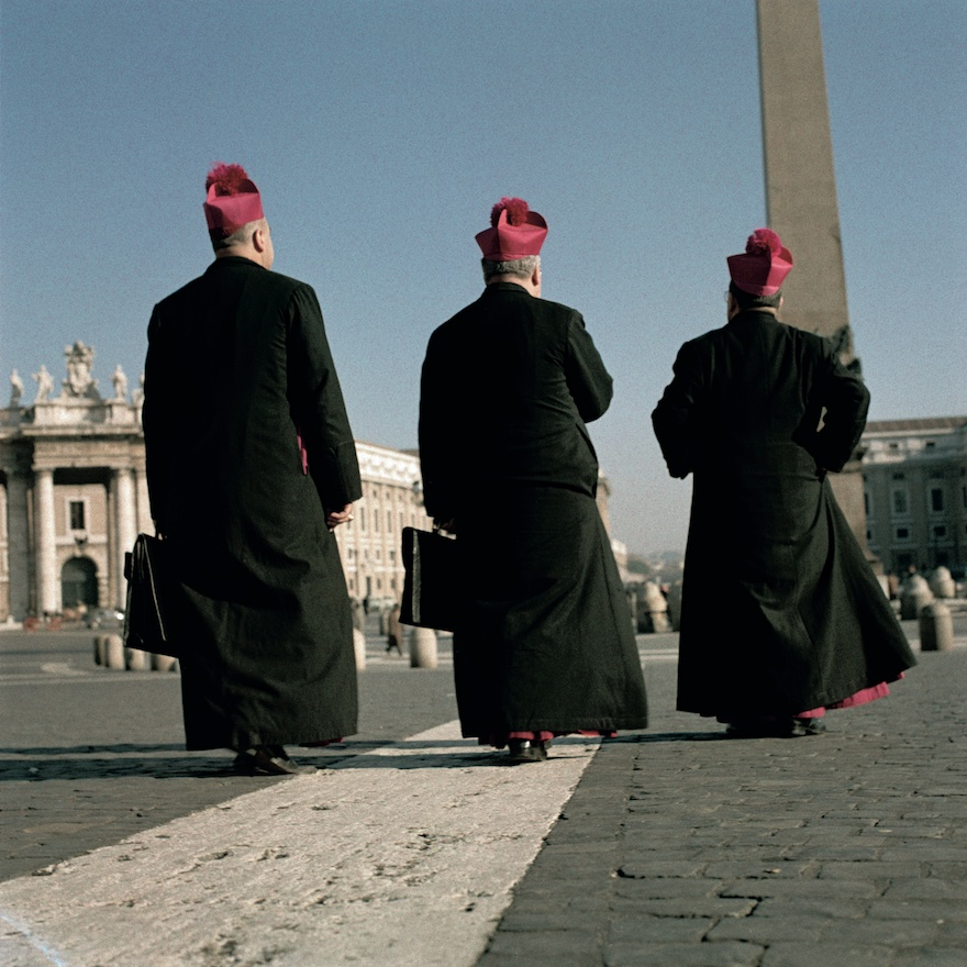 Second Vatican Council Cardinals Leaving St. Peter's